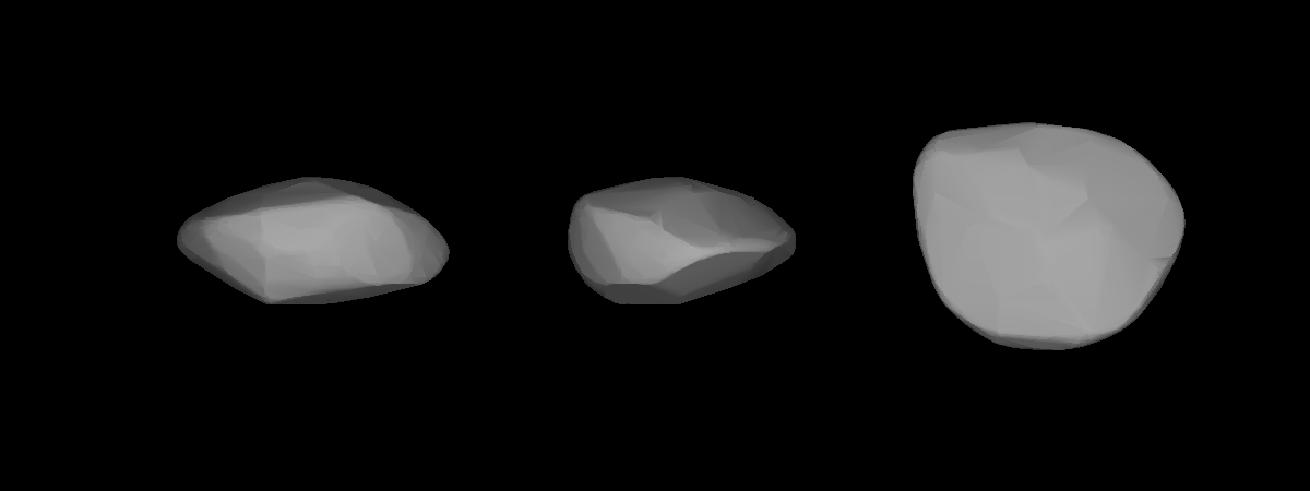 A three-dimensional model of 1862 Apollo that was computed using light curve inversion techniques.